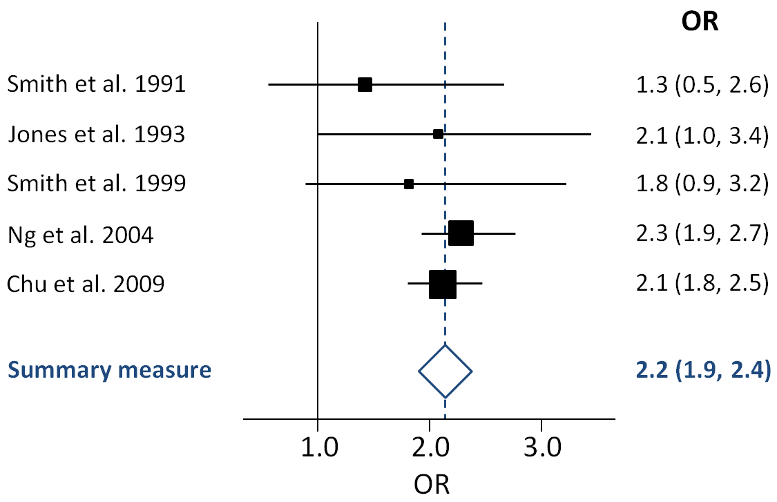 A generic forest plot such as would commonly be used in epidemiological studies, showing odds ratios of various studies, their confidence intervals, and the summary measure arrived at through meta-analysis